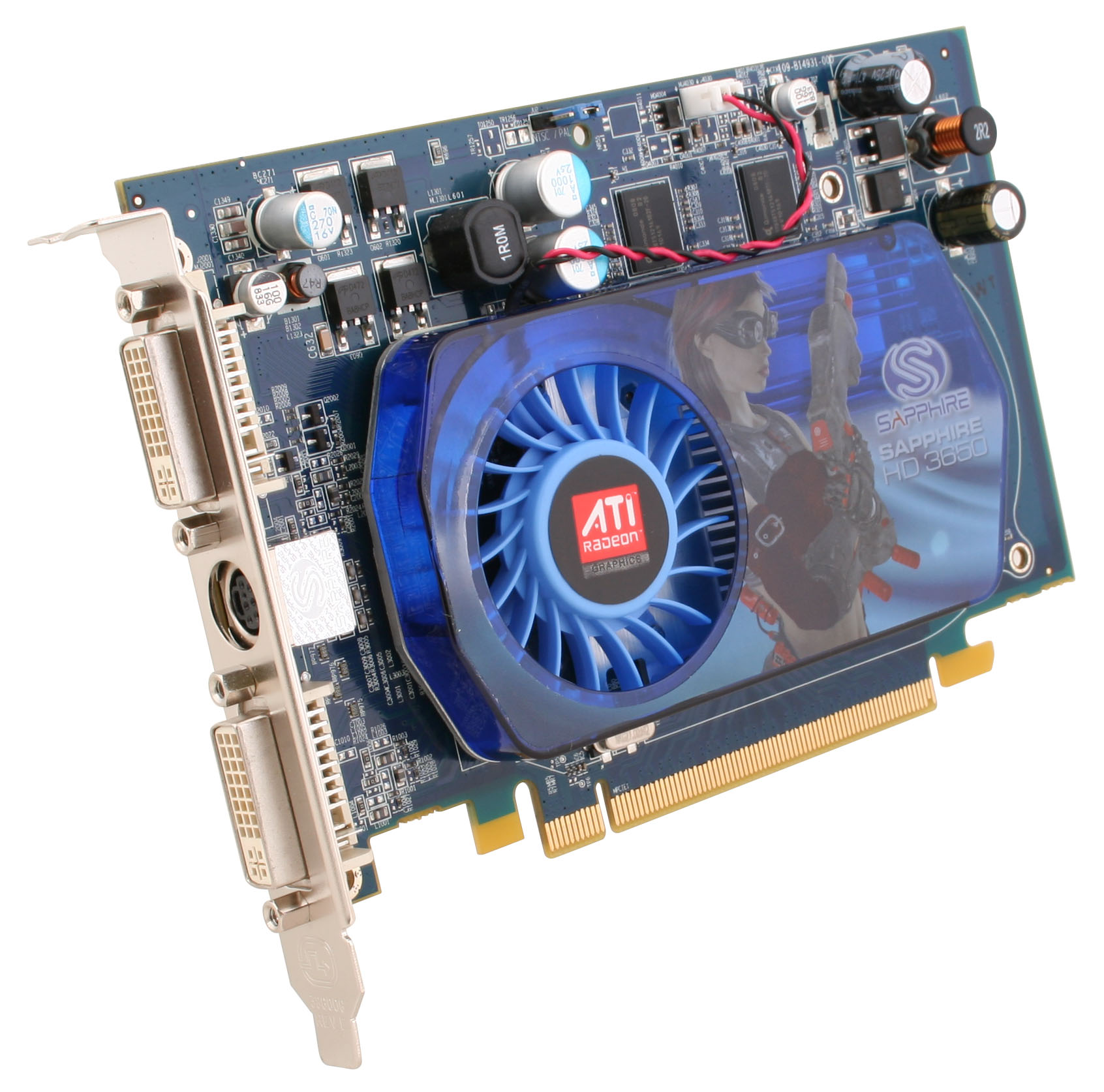 ATI Sapphire Radeon HD 3650 512MB DDR2 PCI-E